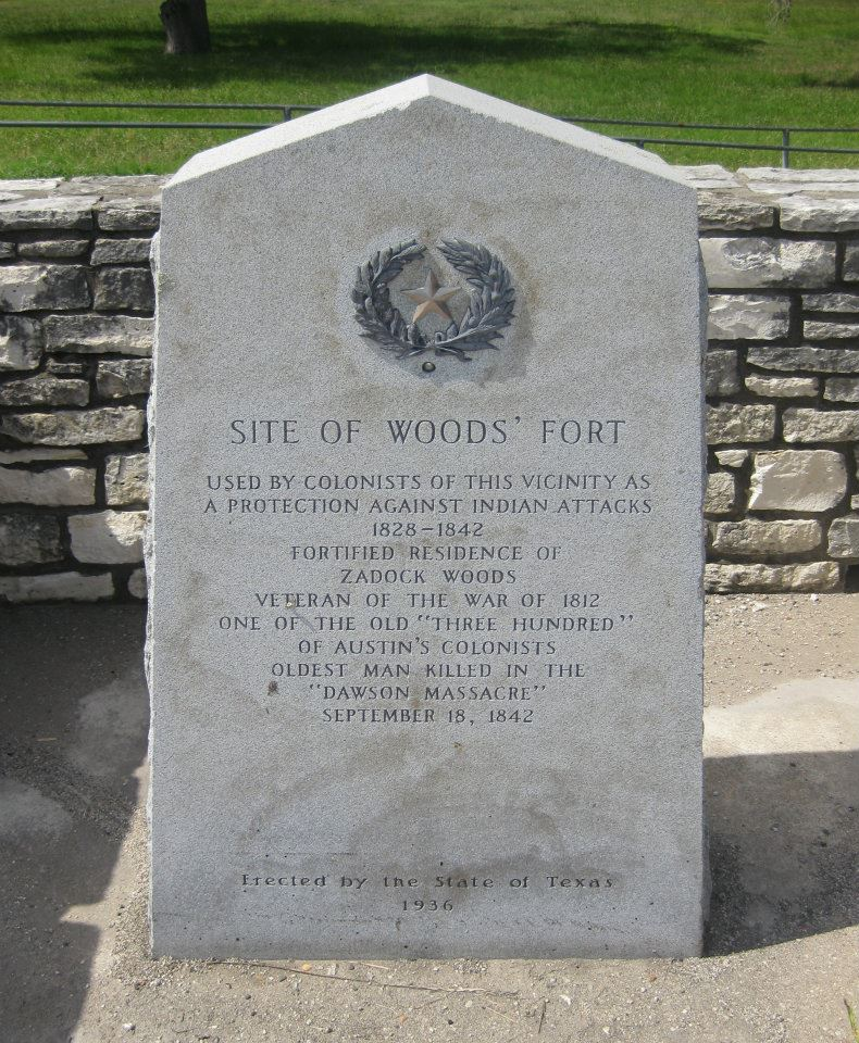 Memorial Stone erected by the State of Texas 1936 at the site of Woods Fort, Texas. The fort was a protection against Indian attacks from 1828 to 1842.